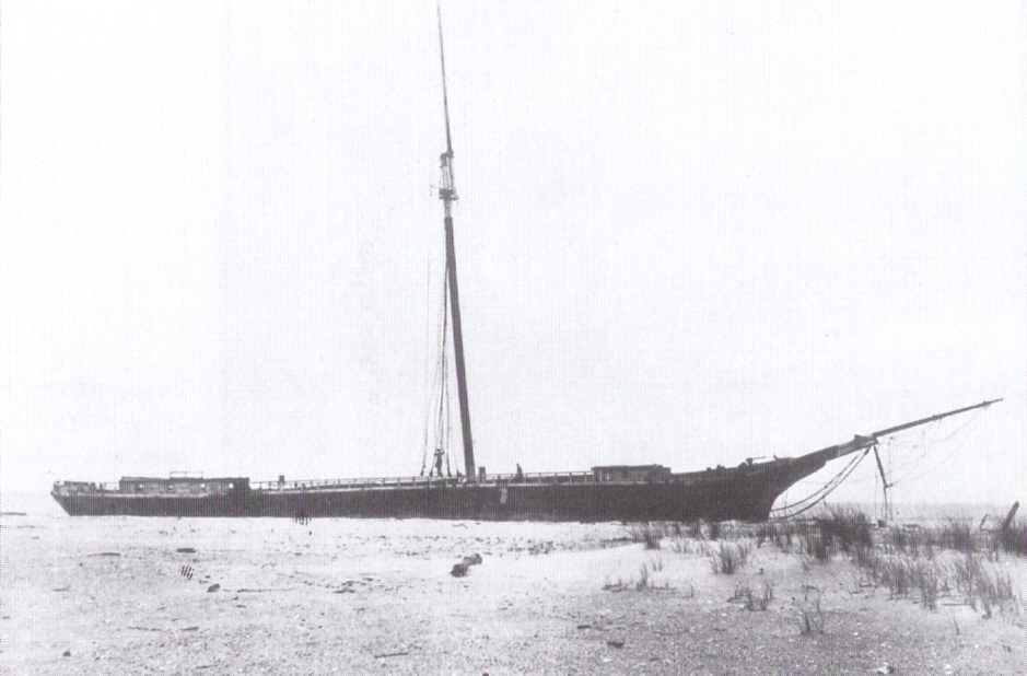 The ship O. D. Witherell aground 3½ miles (5.6 kilometers) south of Bethany Beach during a voyage from New York City to Philadelphia.